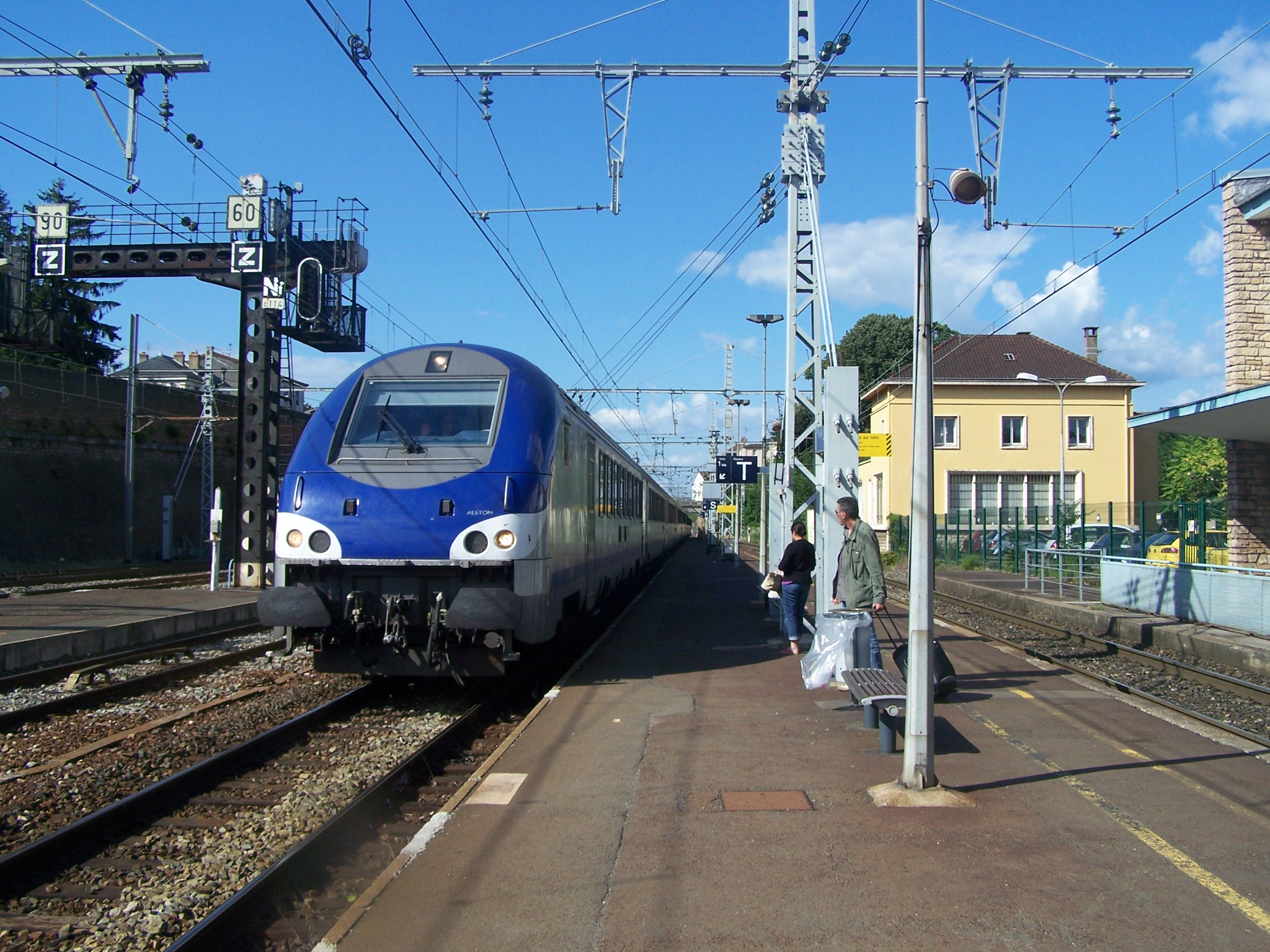 French regional train coming from Dijon is entering the station of Mâcon-Ville in Saône-et-Loire before continuing to Grenoble in Isère.